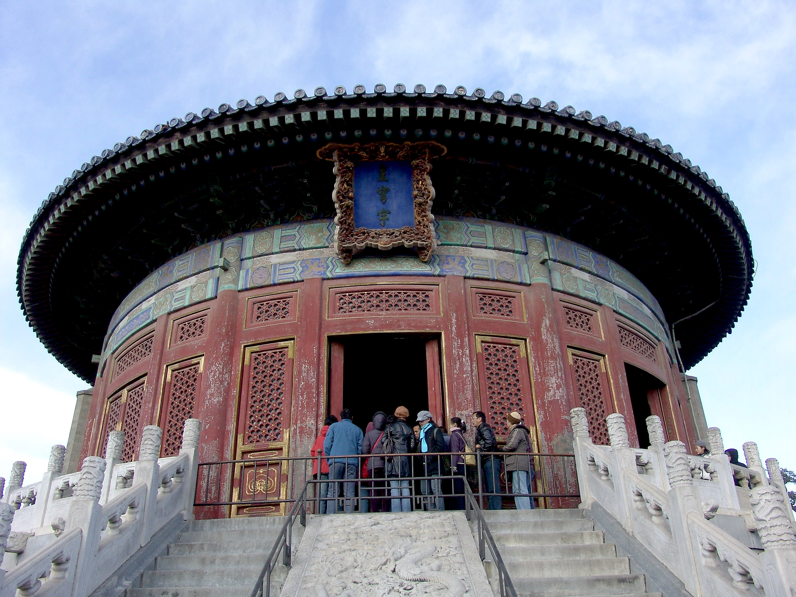 Another Hall 3